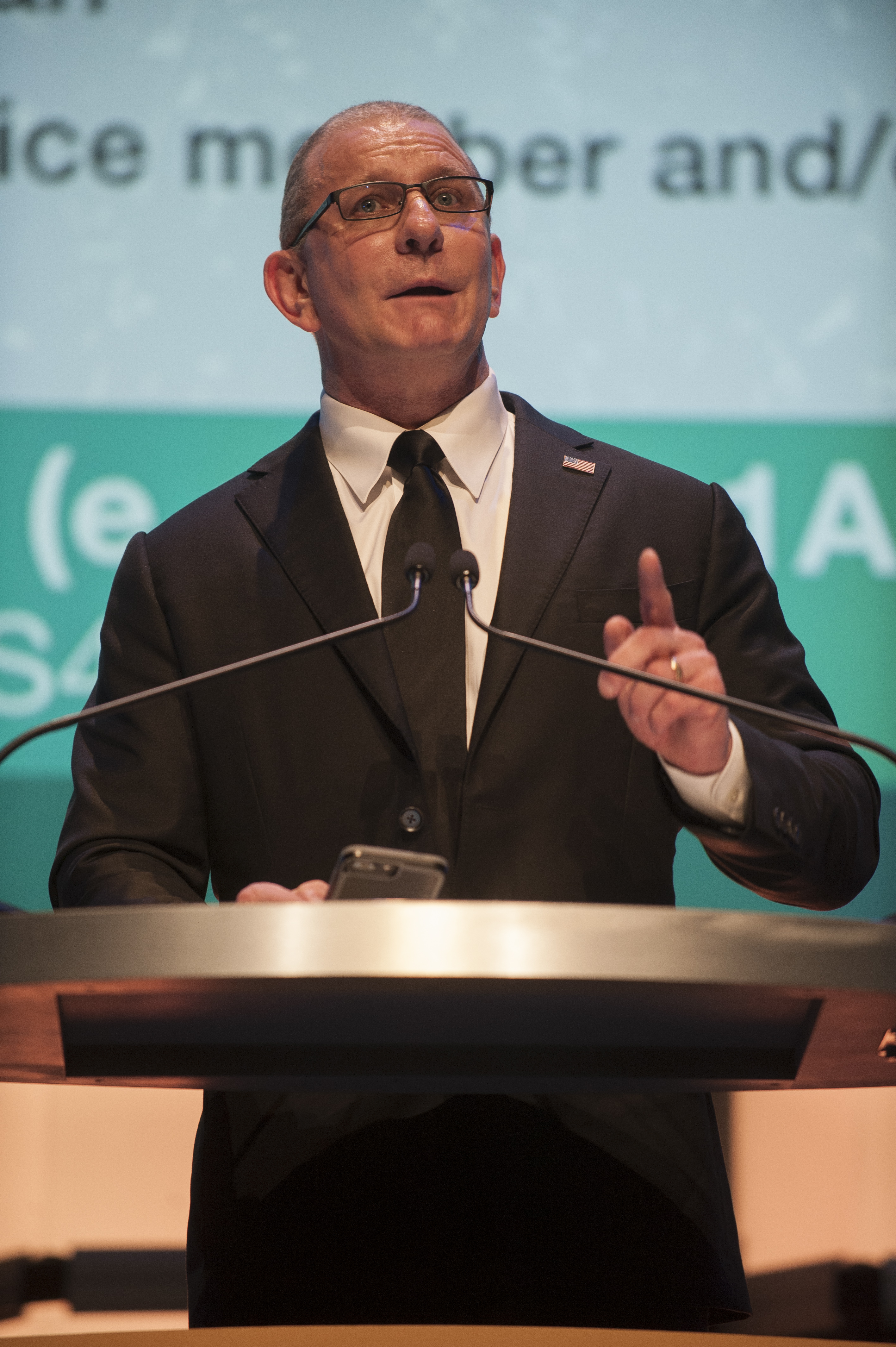 2017 SAMHSA Voice Awards